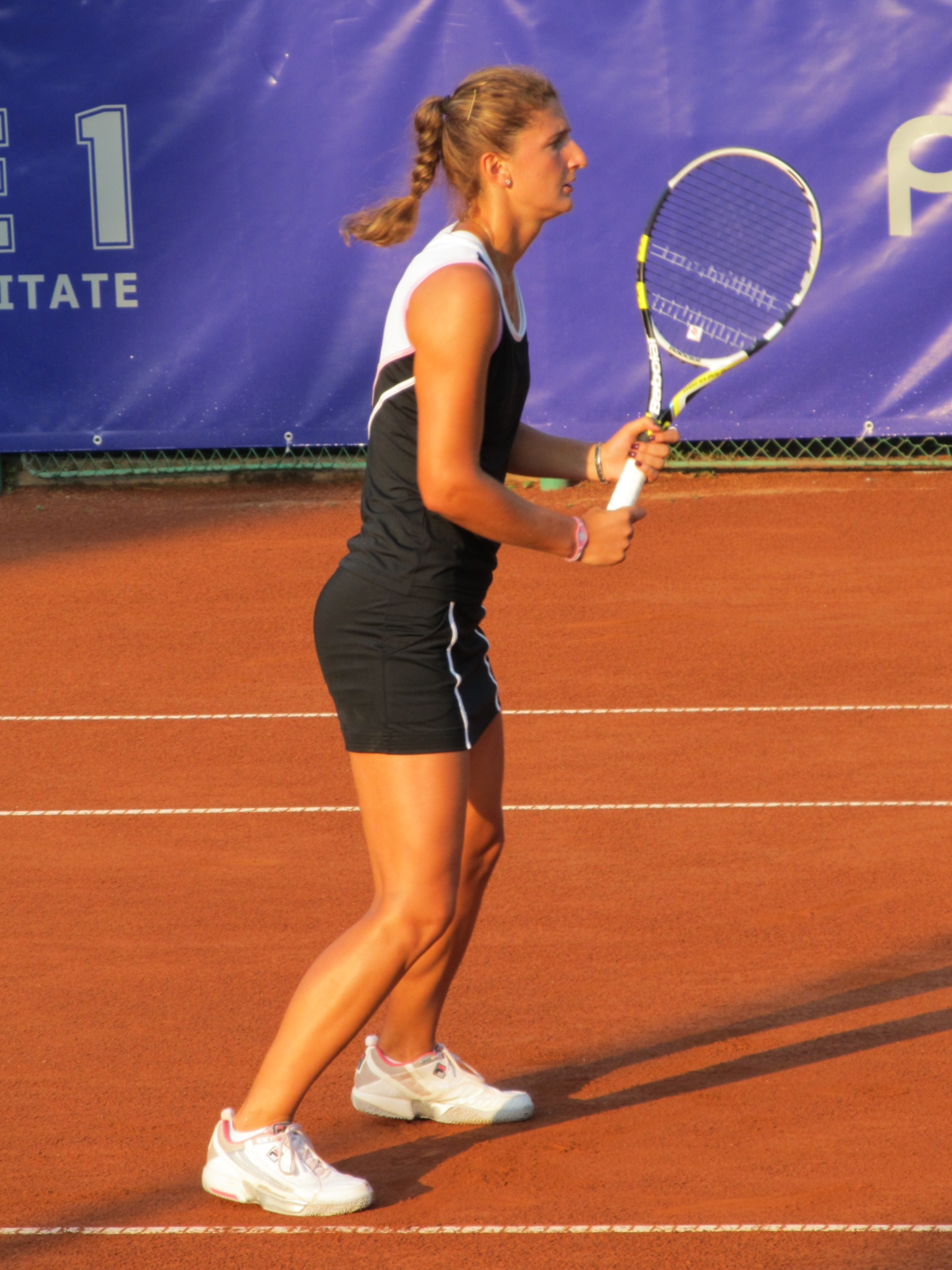 Irina-Camelia Begu warming-up at the 2011 BCR Open Romania Ladies before her first round match against Corinna Dentoni